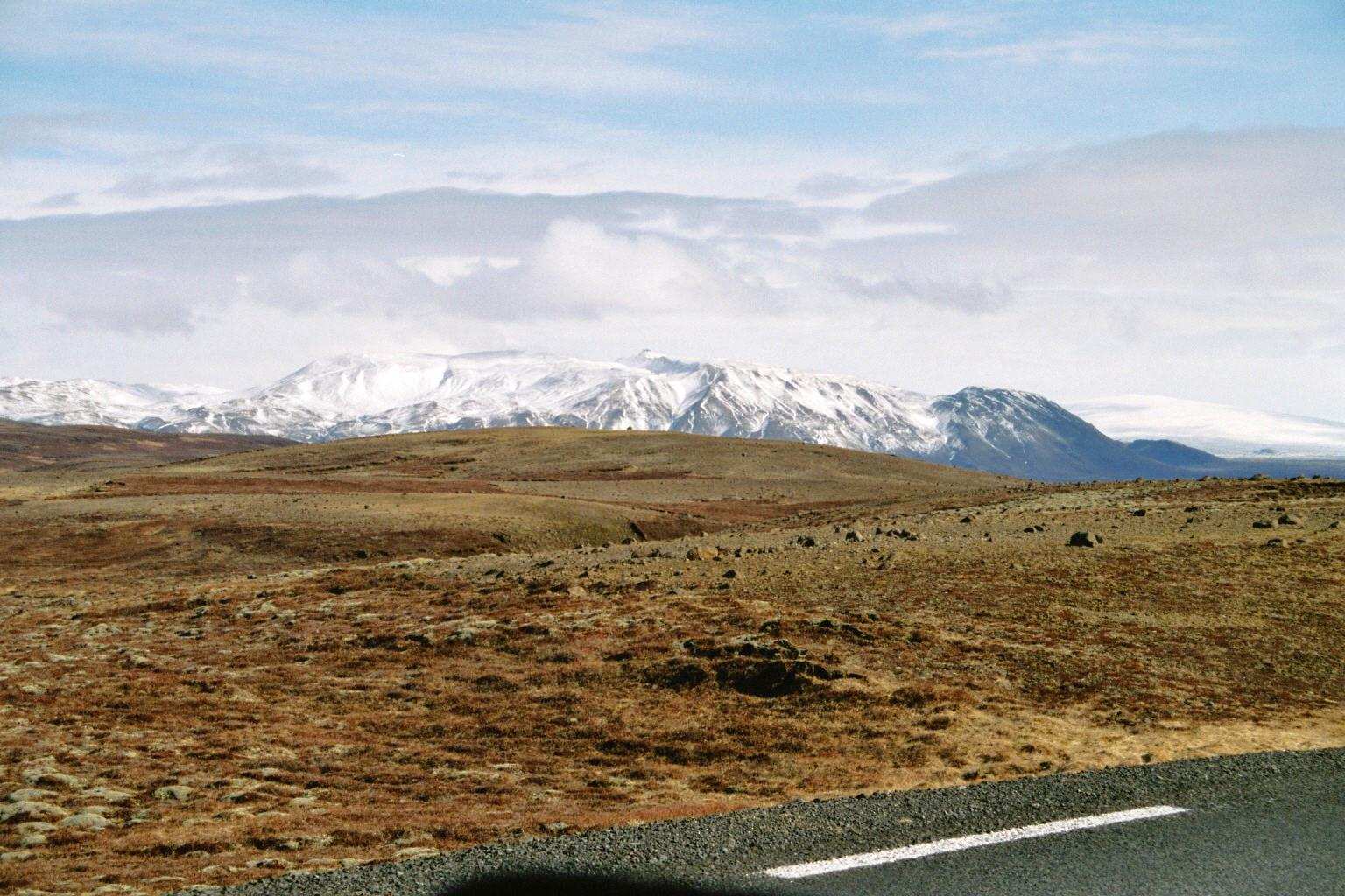 The picture shows Mosfellsheidi highland in the southwest of Iceland.